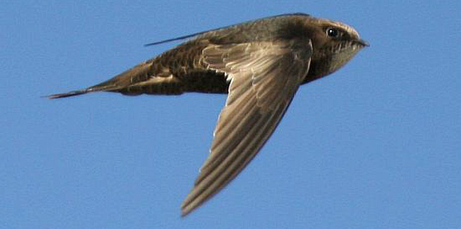 African Swift (Apus barbatus), nominate race, taken at Milnerton, Cape Town